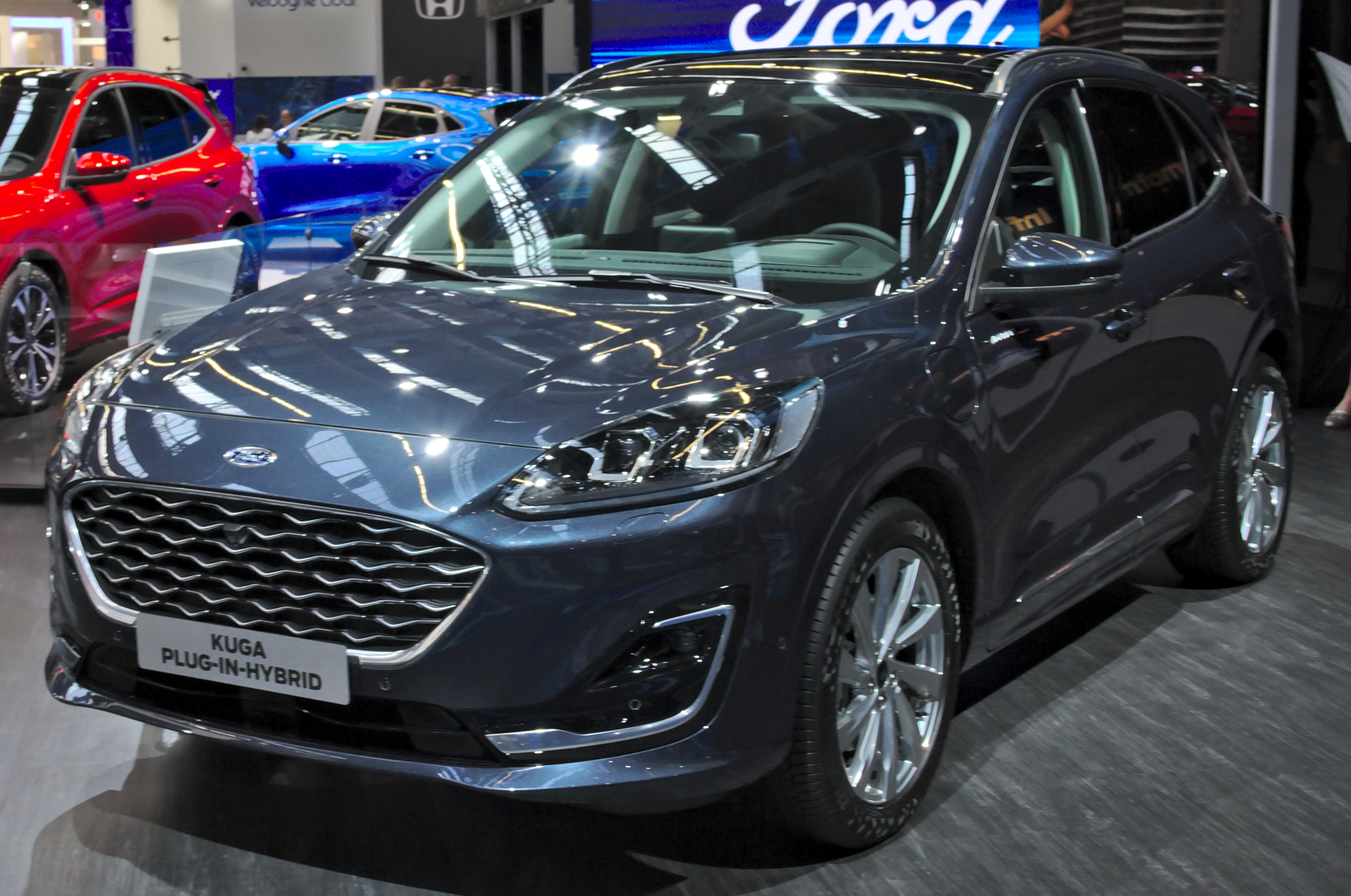 Ford_Kuga_(third_generation) at IAA 2019